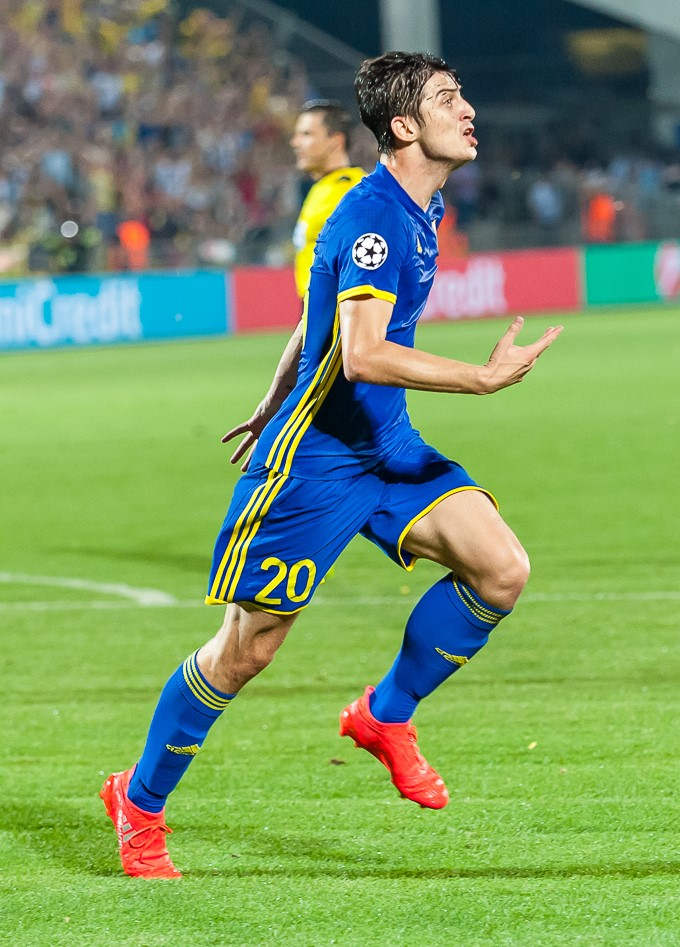 Sardar Azmoun